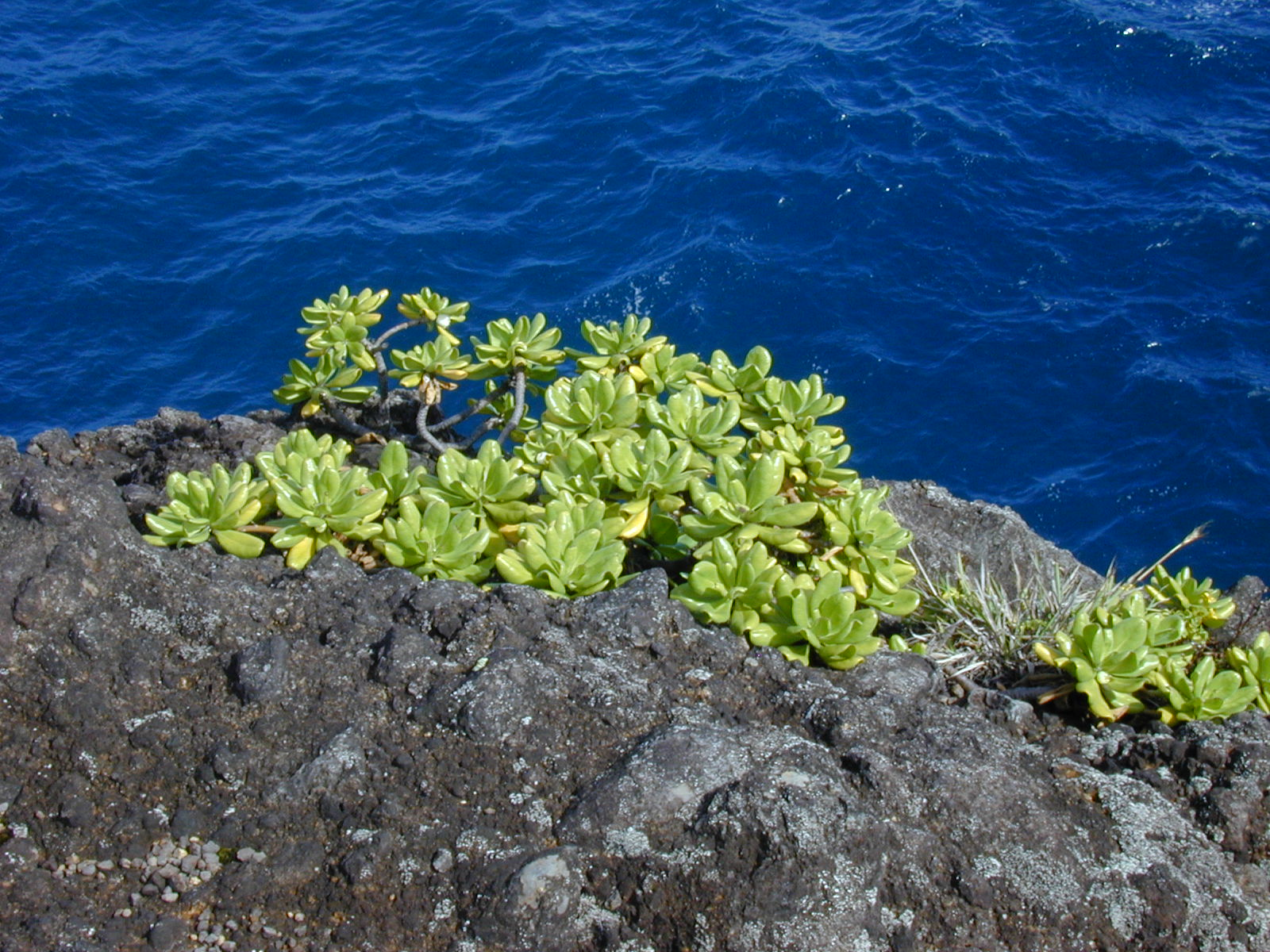 Scaevola taccada (habit over ocean). Location: Maui, Pauwalu Pt